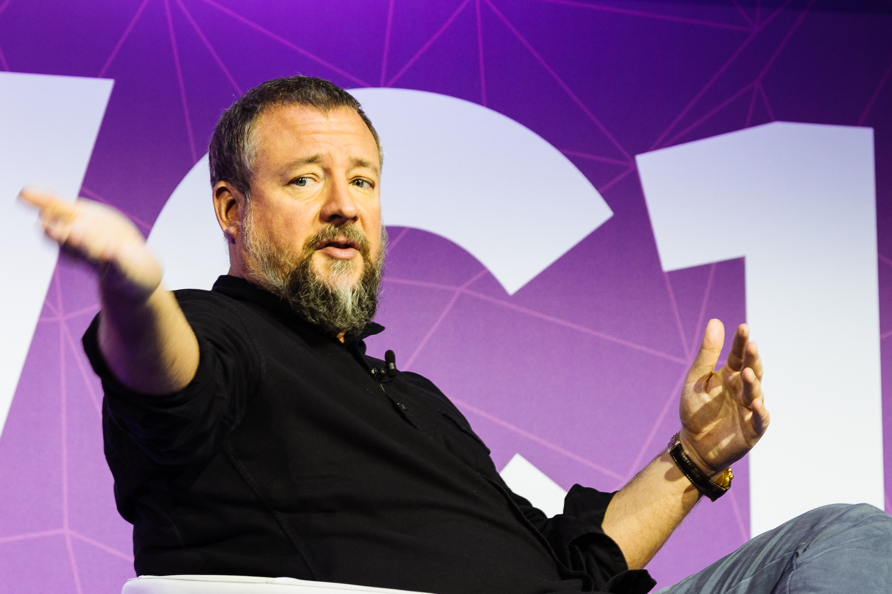 Shane Smith during the 2017 Mobile World Congress in Barcelona, Spain